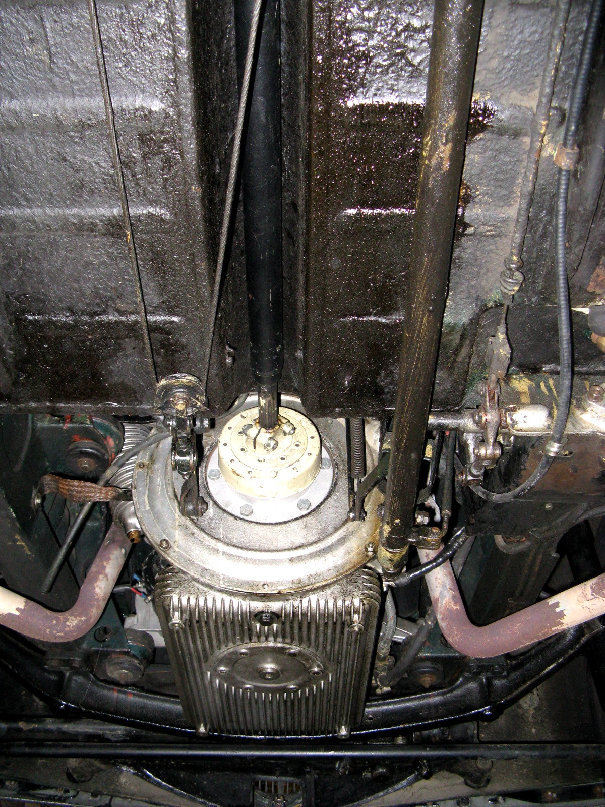 1951 Lancia Aurelia B10 (engine: 2.2 l V6) engine and clutch from underneath